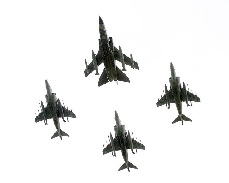 A flypast of a 41 Squadron Tornado and three 41 Squadron Harriers, RAF Coningsby, October 2006.